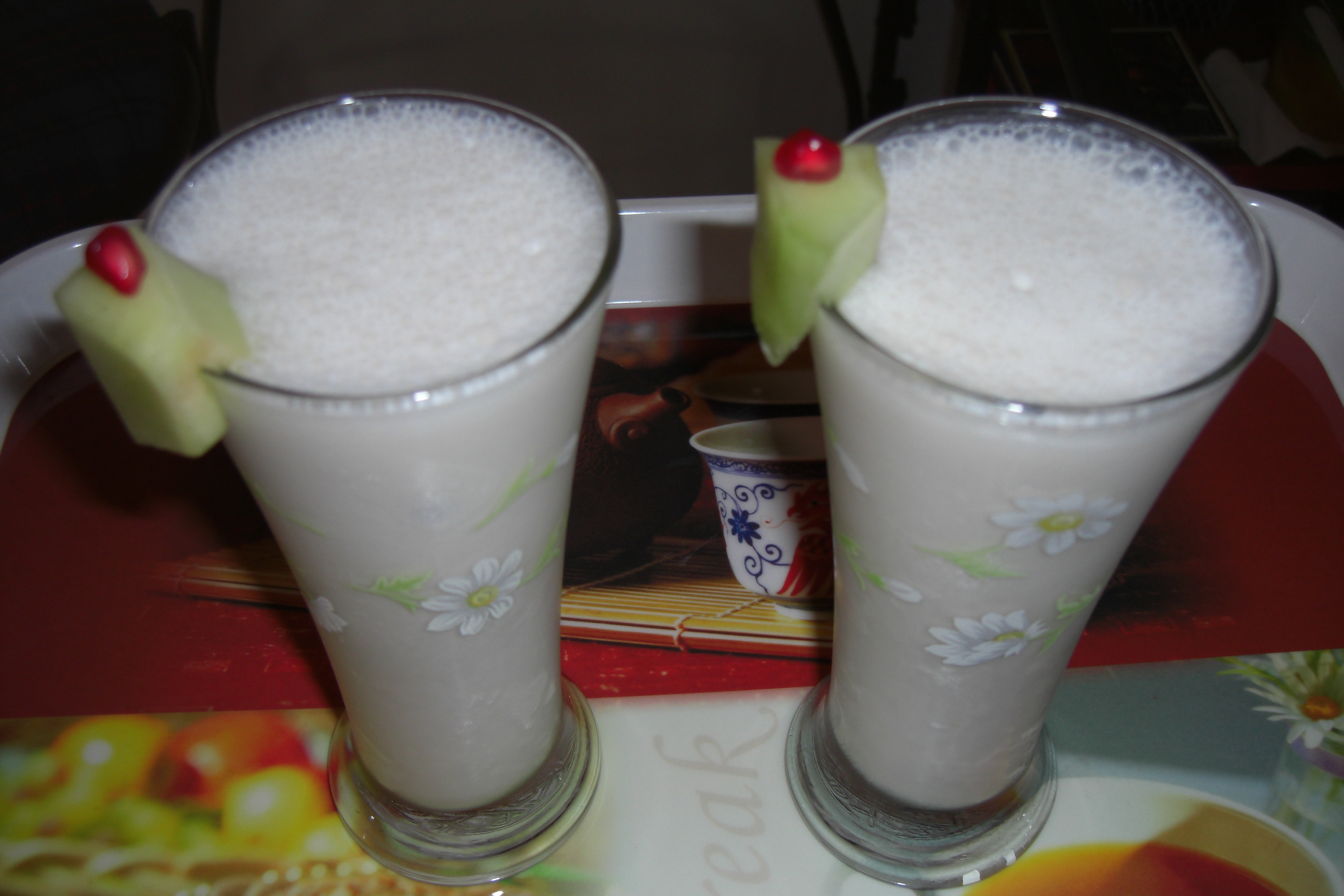 Fat-free lassi from Mumbai